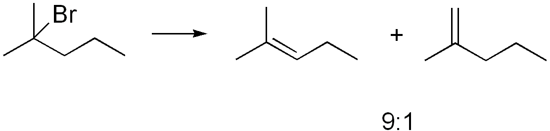 diagram showing the dehydrobromination of 2-bromo-2-methylpentane to give products that follow Zaitsev's rule